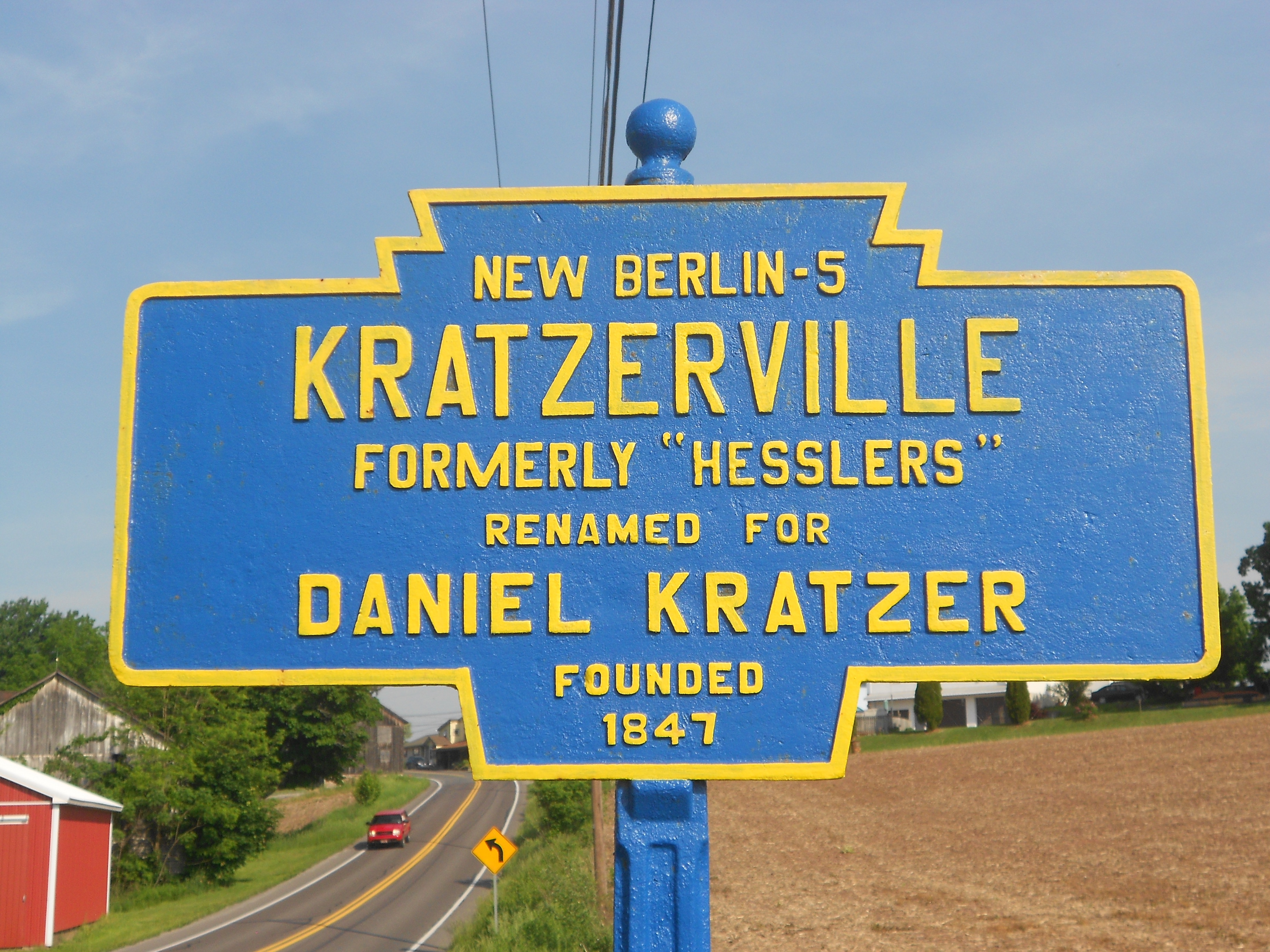 Keystone marker for the CDP of Kratzerville, Jackson Township, Snyder County, Pennsylvania. The marker likely dates from the 1920s or 1930s